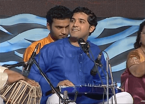 Samrat Pandit singing at Sawai Sawai Gandharva Bhimsen Mahotsav, screenshot from the telecast